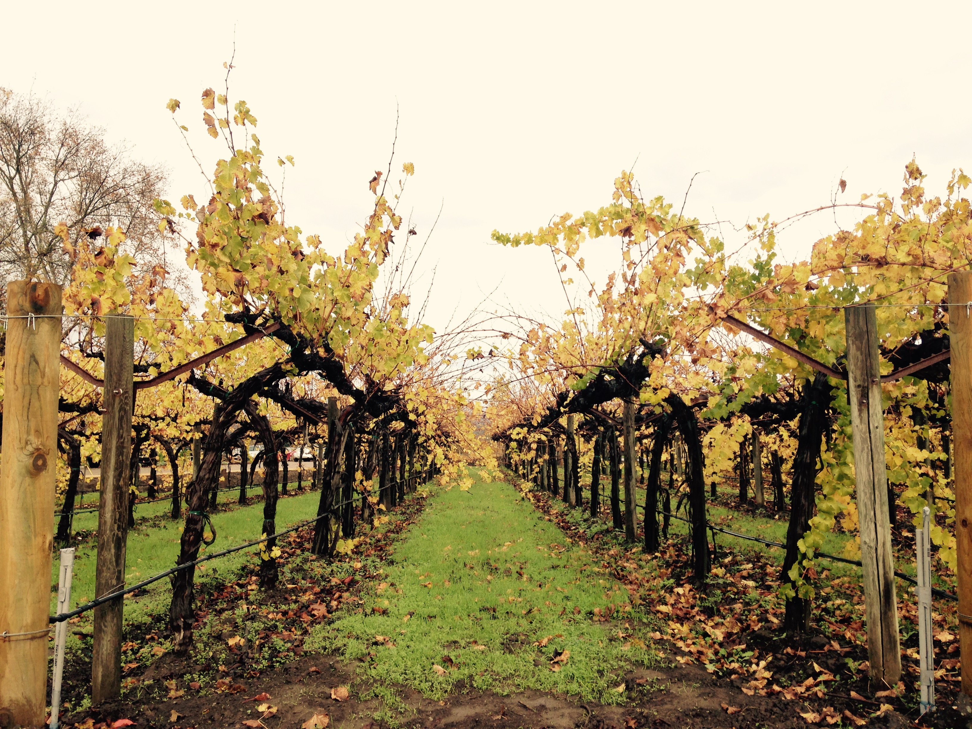 This picture was taken on Cakebread Cellars, Napa.